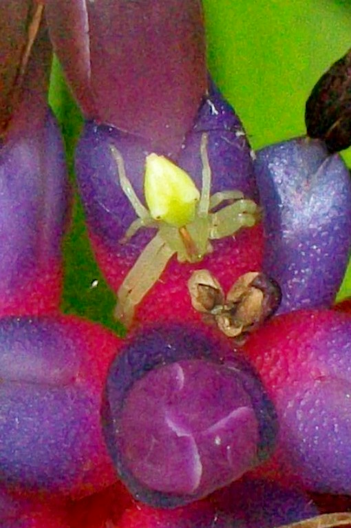 Sidymella rubrosignata on a Bromelia